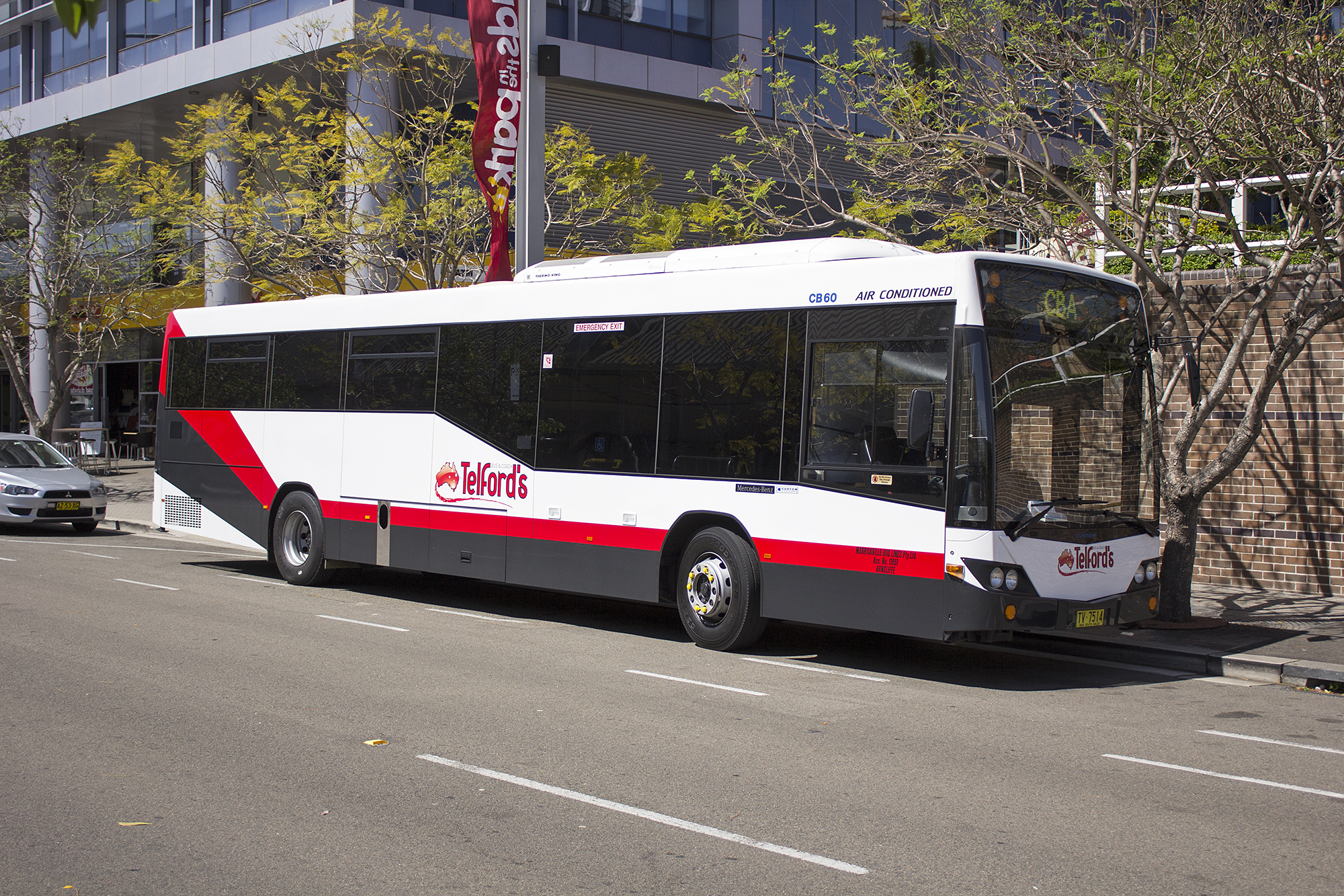 Telford's (TV 7514) Custom Coaches 'CB60 Evo II' bodied Mercedes-Benz OH1830LE parked in Dawn Fraser Ave at Sydney Olympic Park.